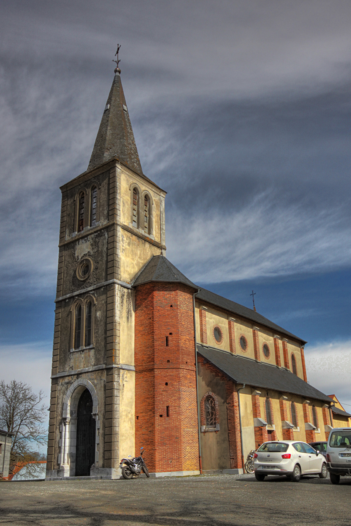 St Laurence's church in Ponson-Dessus, Pyrénées-Atlantiques, France. Ponson-Dessus is in the Pyrénées-Atlantiques and twenty-five kilometers from Pau. The church illustrated here replaces Ponson-Dessus’ original St Laurence's, which was destroyed around 1880. The church contains furniture, statues, and some objects recorded in the General Inventory of Cultural Heritage.